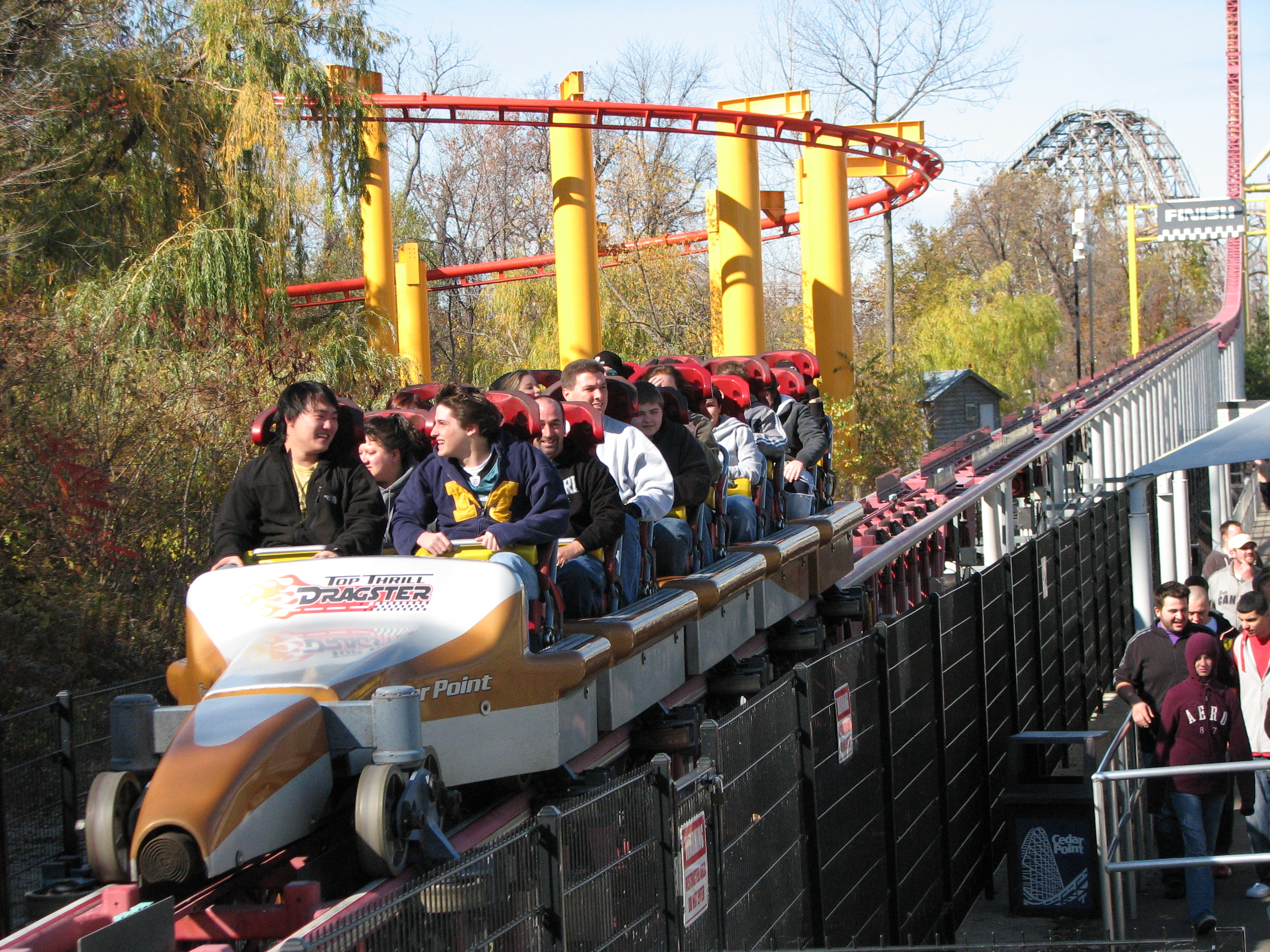 Top Thrill Dragster train on brake run.